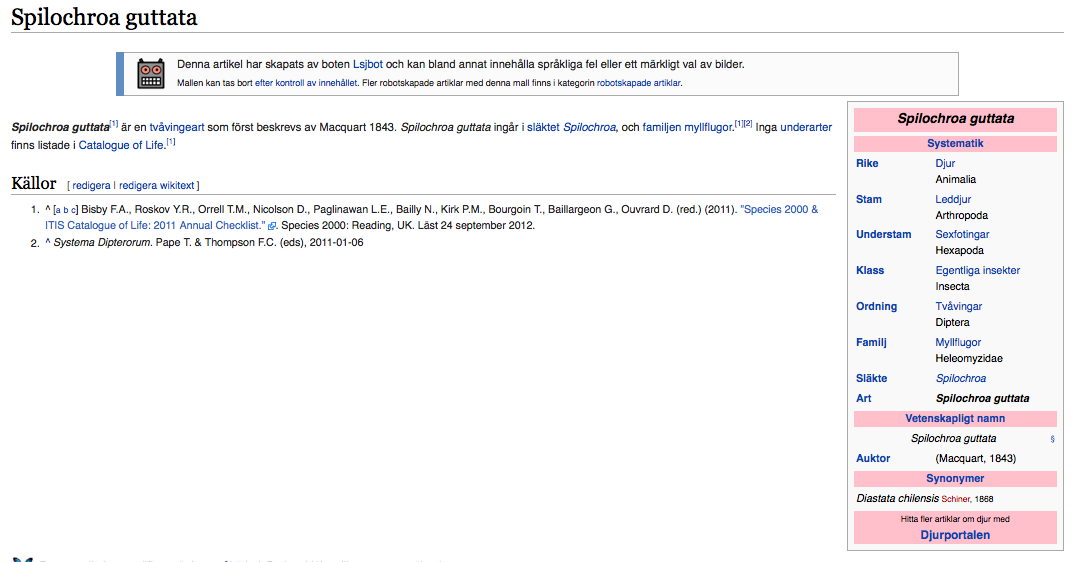 A typical bot generated article by Användare:Lsjbot; example Spilochroa guttata